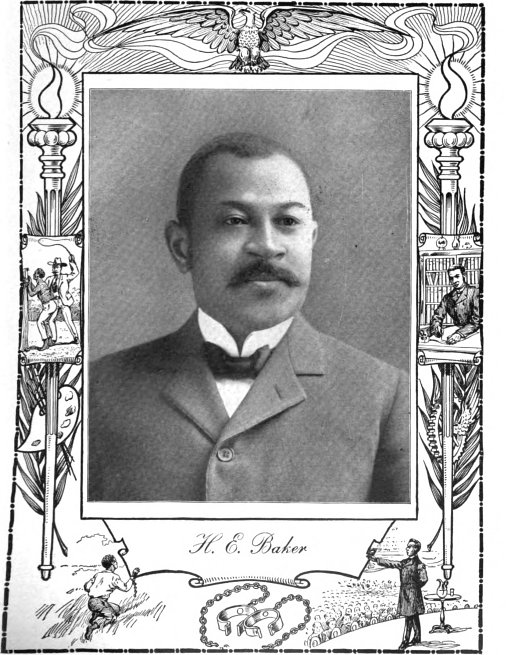 Portrait of Henry Edwin Baker circa 1902 date QS:P,+1902-00-00T00:00:00Z/9,P1480,Q5727902.